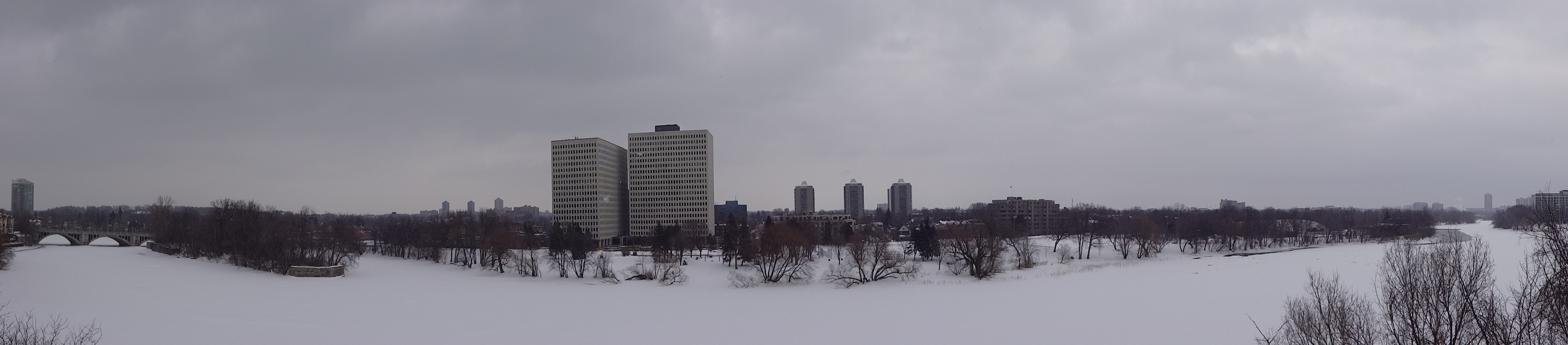 Rideau River.